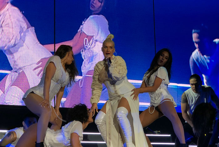 American recording artist Christina Aguilera performing "Accelerate". The performance took place at the Pepsi Center in Denver, Colorado, on October 19, 2018.